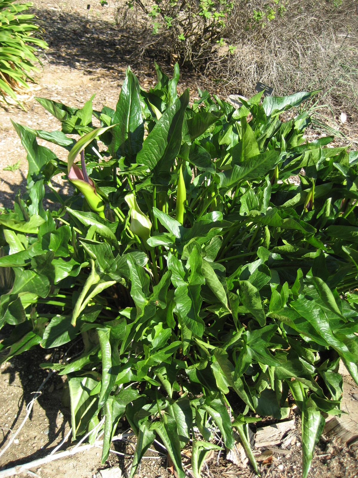 Photographed at Huntington Gardens (Los Angeles) in March